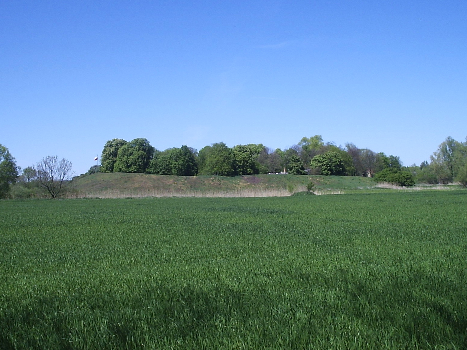 Mound where the gord was in X century, Poland